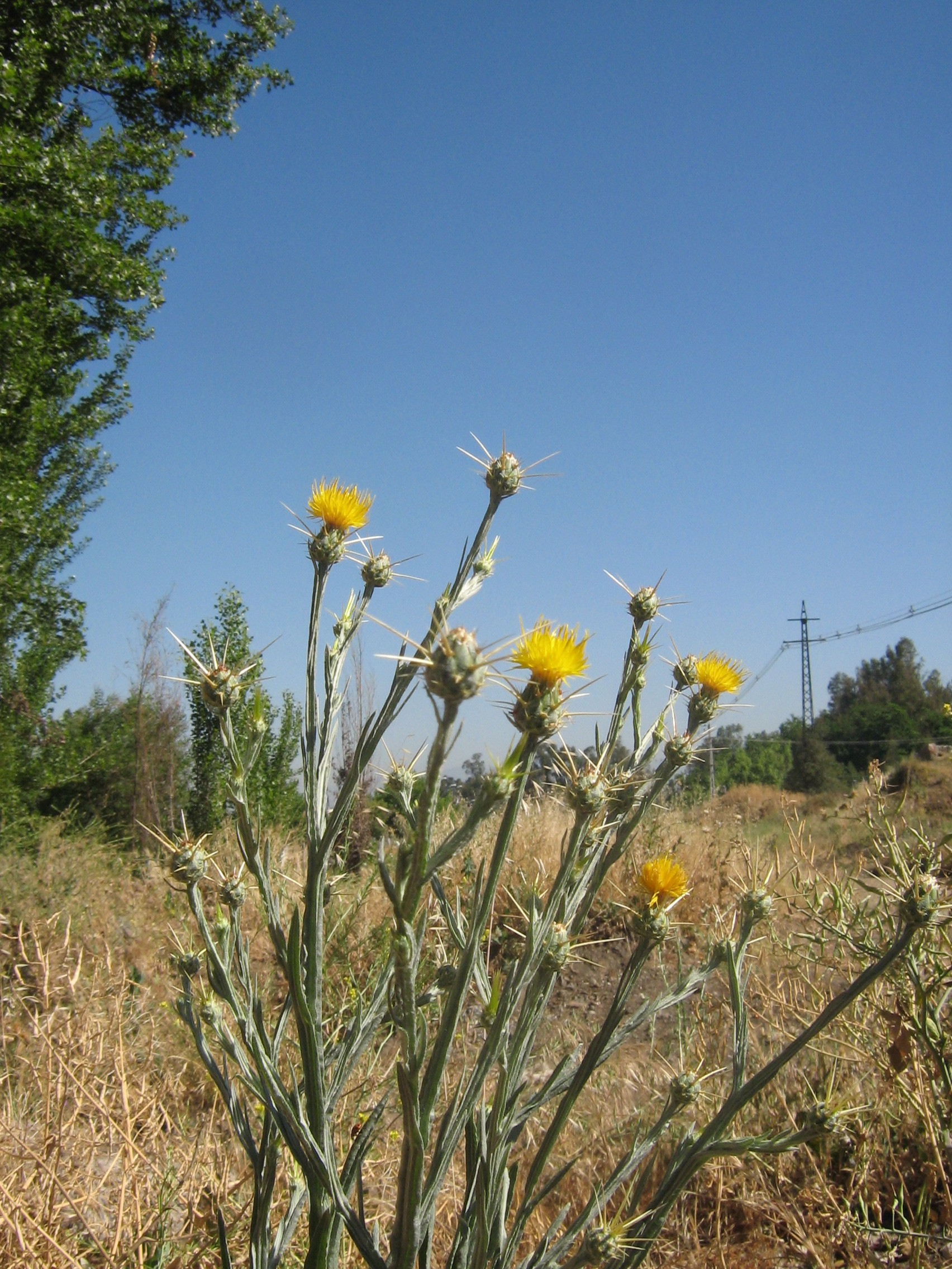 Centaurea solstitialis (det. user:RLJ), weed in Central Chile